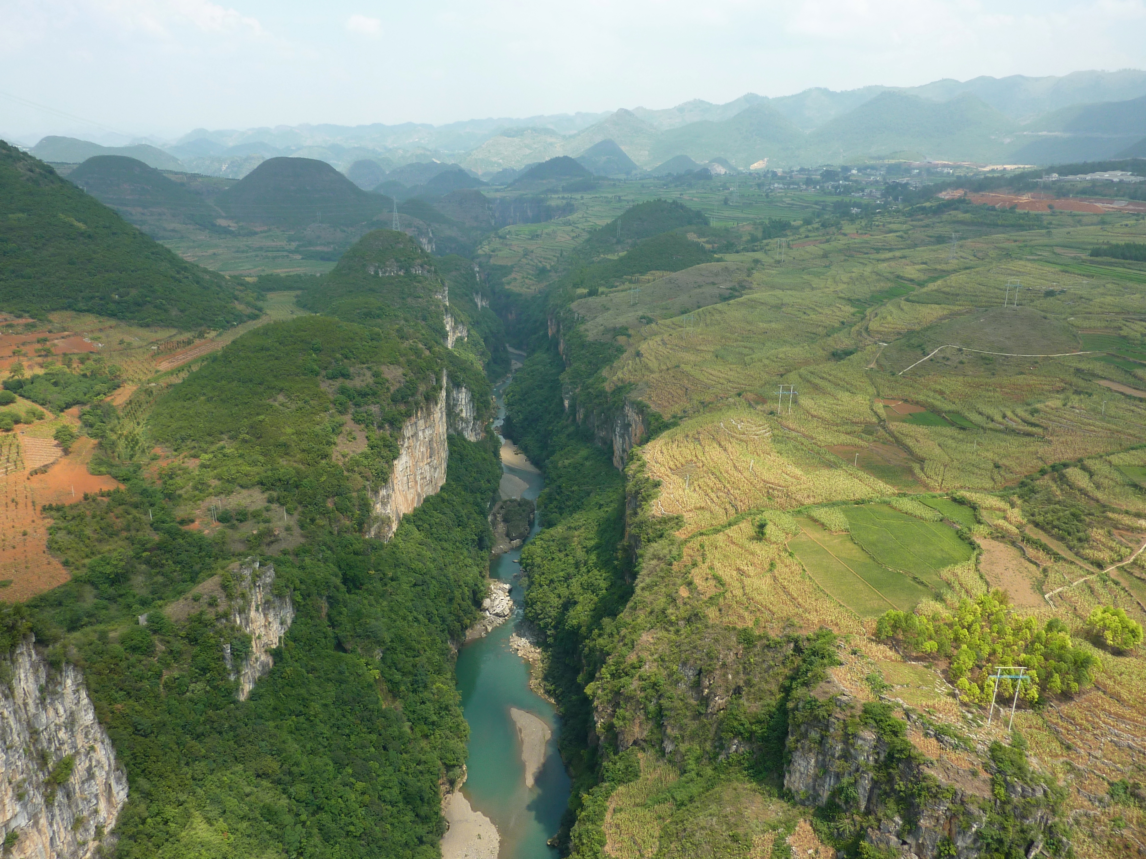 The Malinghe River Bridge in Guizhou province, China